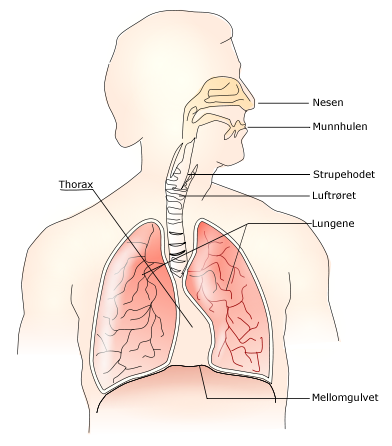 Respiratory system